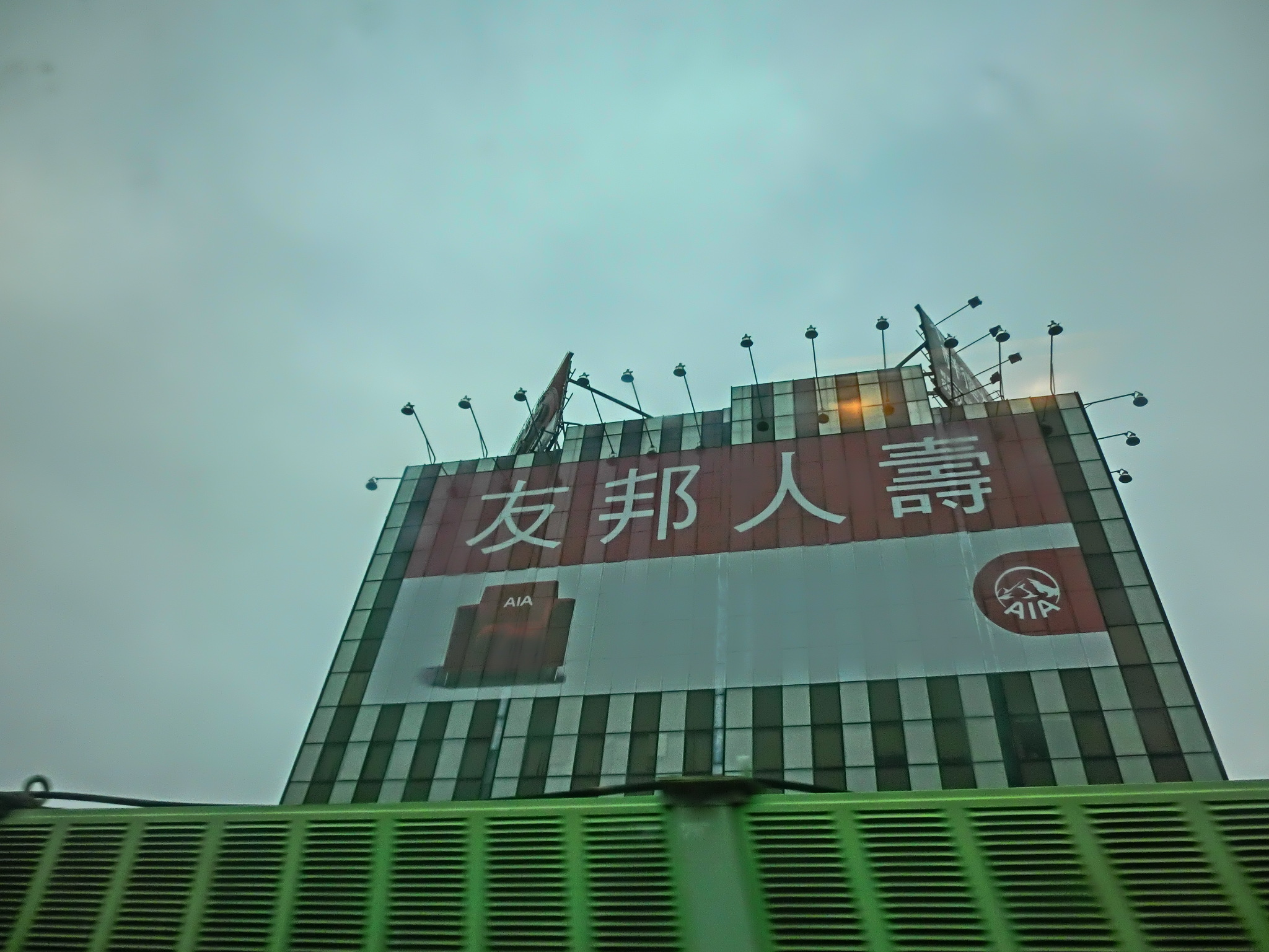 台灣新北市, New Taipei, Taiwan